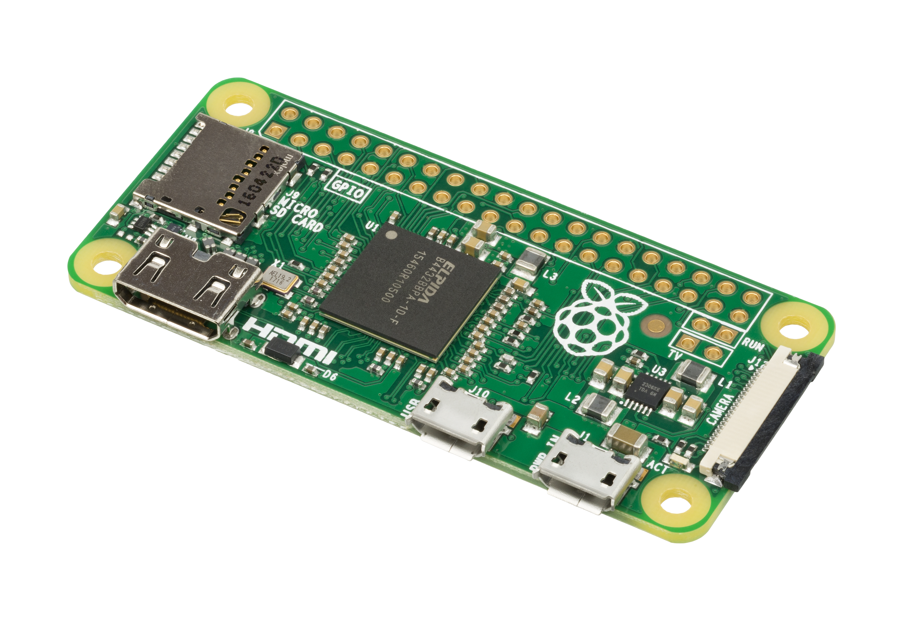 The Raspberry Pi Zero, an extremely minimal single-board computer developed by the Raspberry Pi Foundation. The Zero is notable for its low cost (selling for only $5) while still being a fully-functional single-board computer.